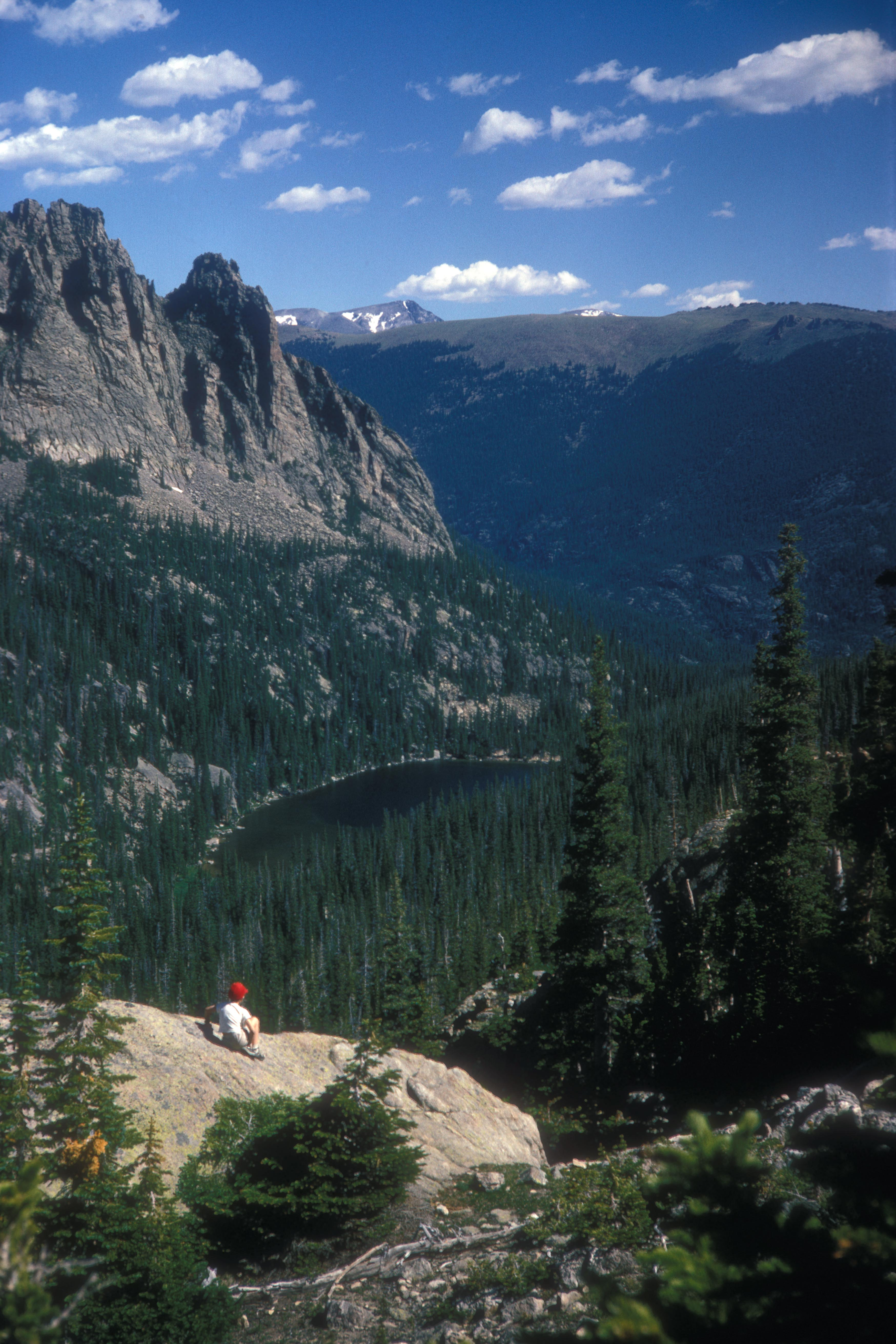 ODESSA LAKE FROM HEAD OF THE VALLEY; 4.15 MILES FROM THE BEAR LAKE TRAILHEAD